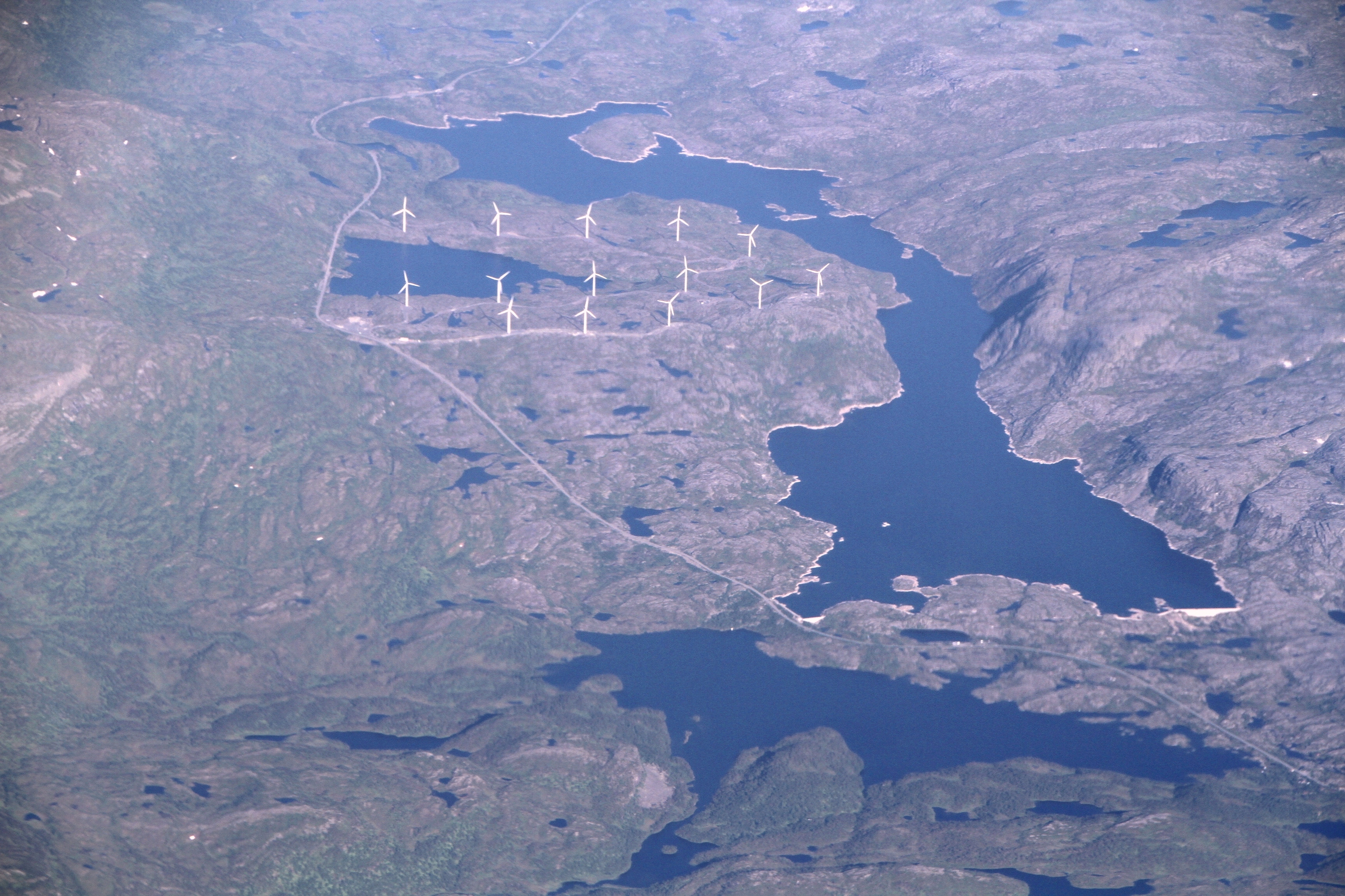 Image from the west towards east, over Narvik municipality, Nordland (Norway).